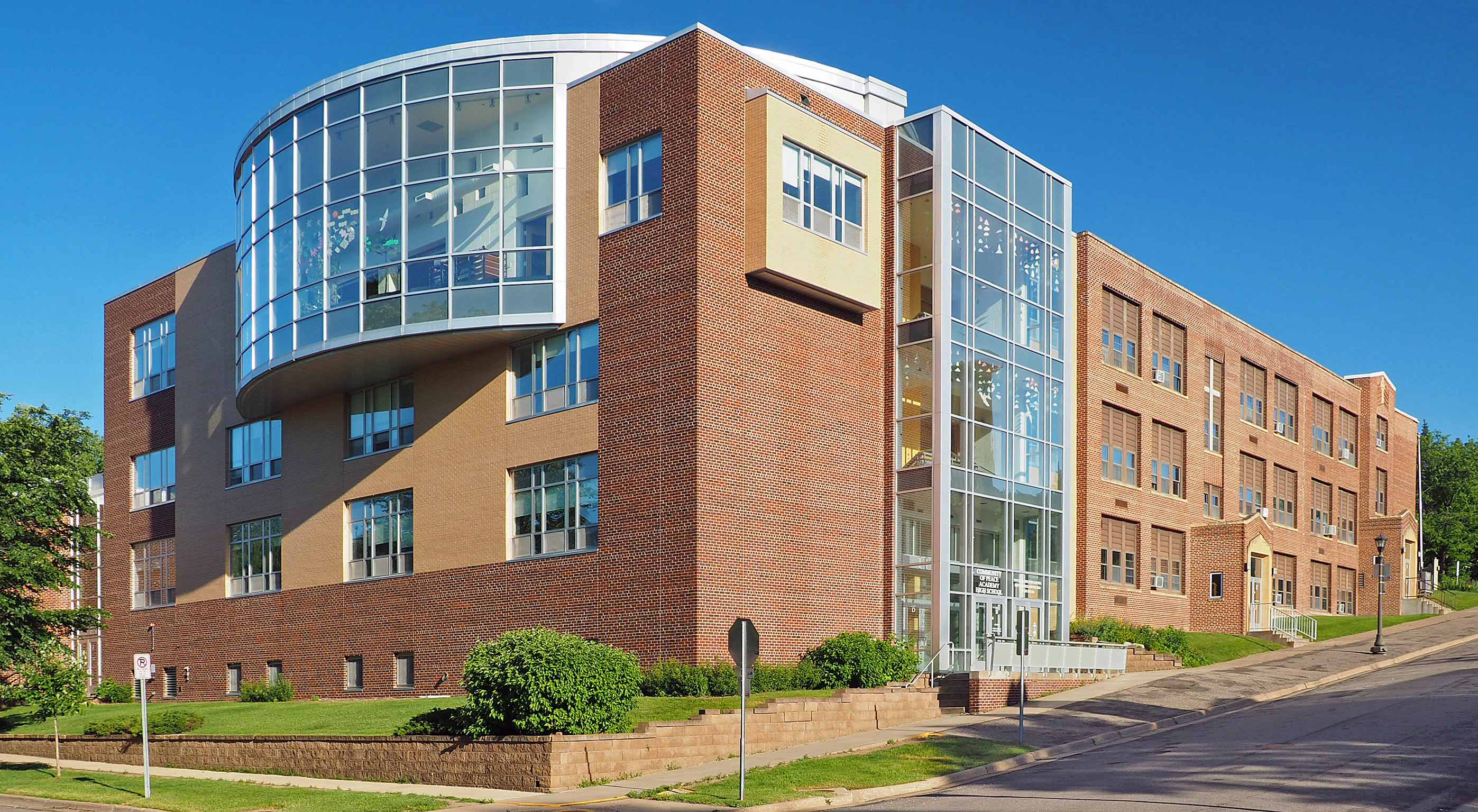 Community of Peace Academy, 471 Magnolia Ave E, St Paul, Minnesota, USA. Viewed from the northwest.